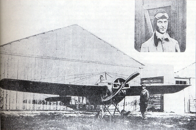 Greek aviator Emmanouel Argyropoulos (up left) and his Nieuport IV.G 50-hp aircraft.